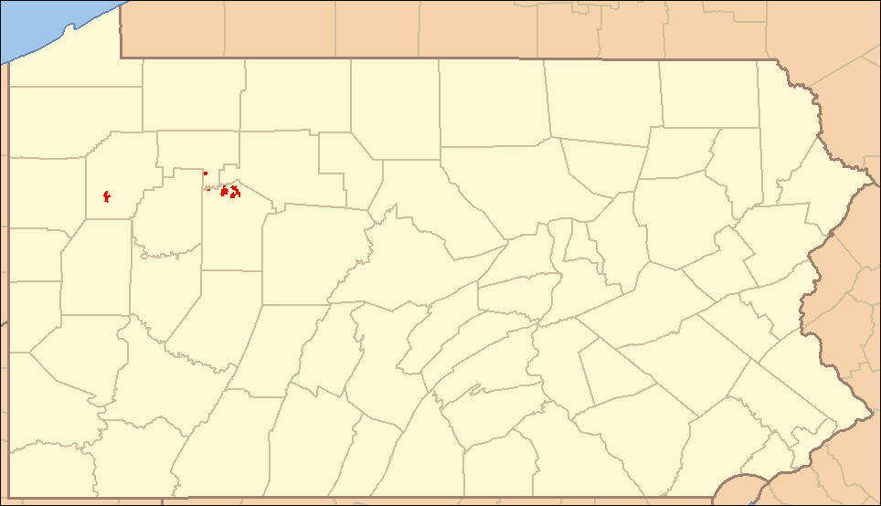 Locator Map of Clear_Creek State Forest, Pennsylvania, United States